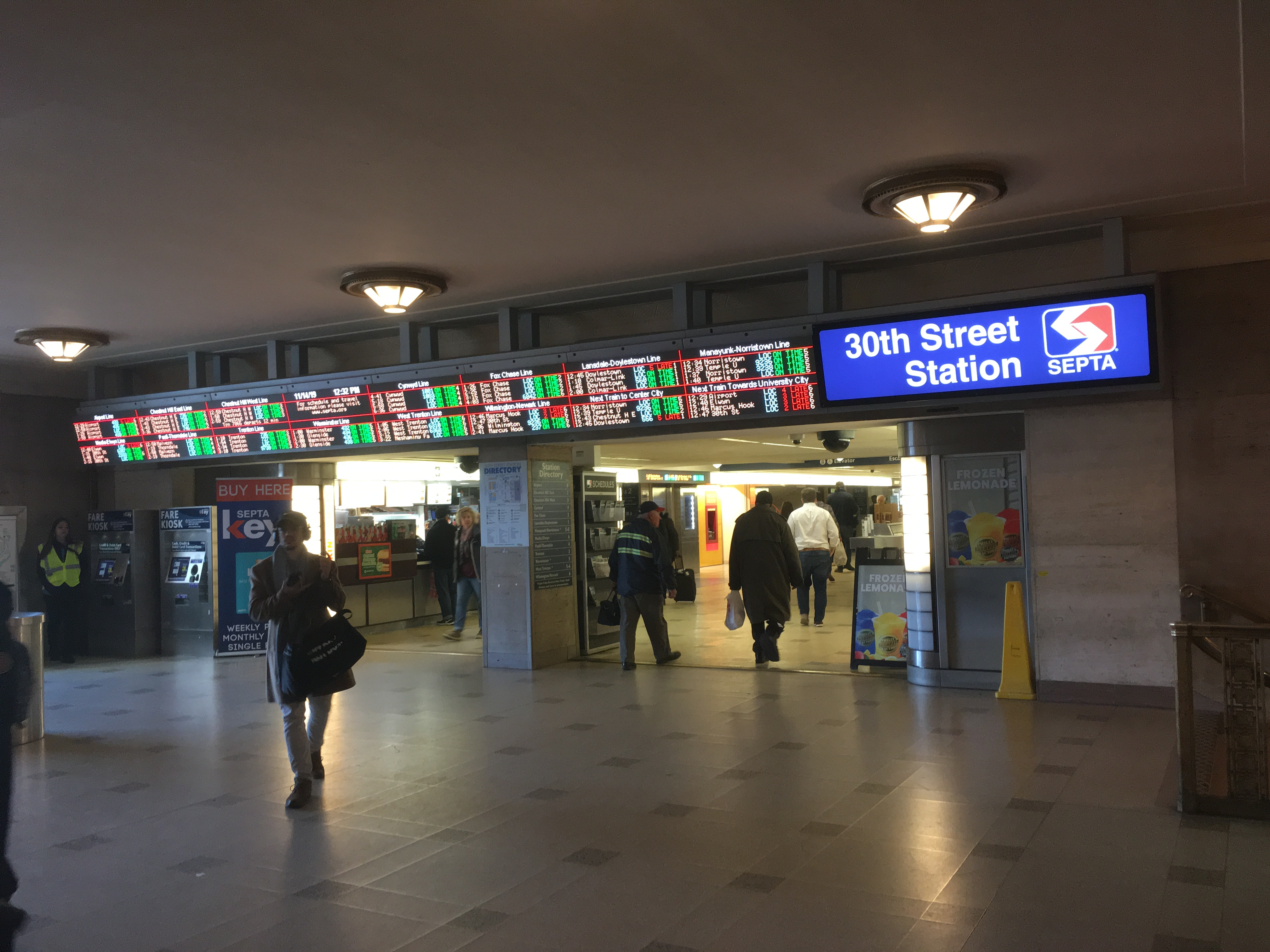 The entrance to the concourse for SEPTA Regional Rail trains at 30th Street Station in Philadelphia, Pennsylvania